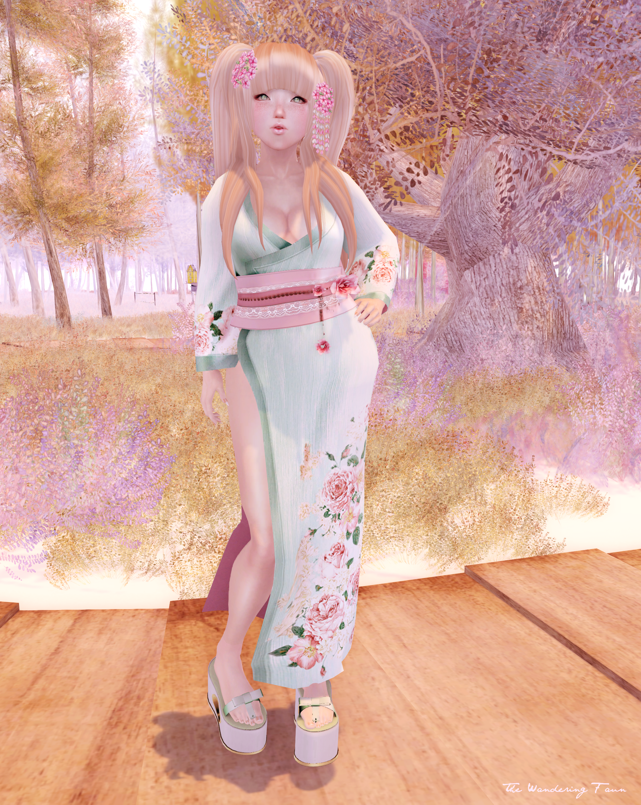 Female avatar from Second Life.